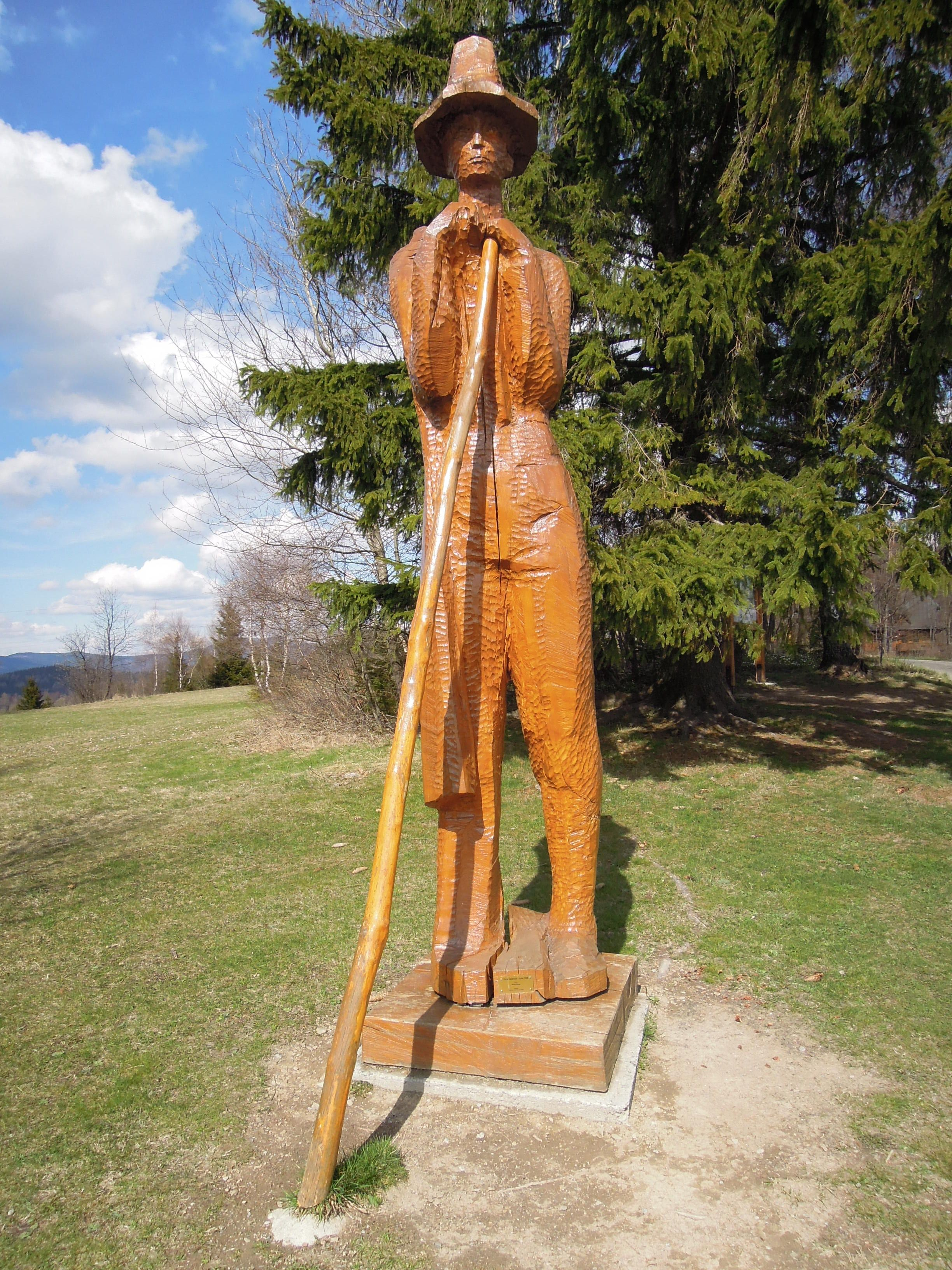 Wooden statue on a Soláň hill, Hutisko-Solanec, Vsetín District, Zlín Region, Czech Republic